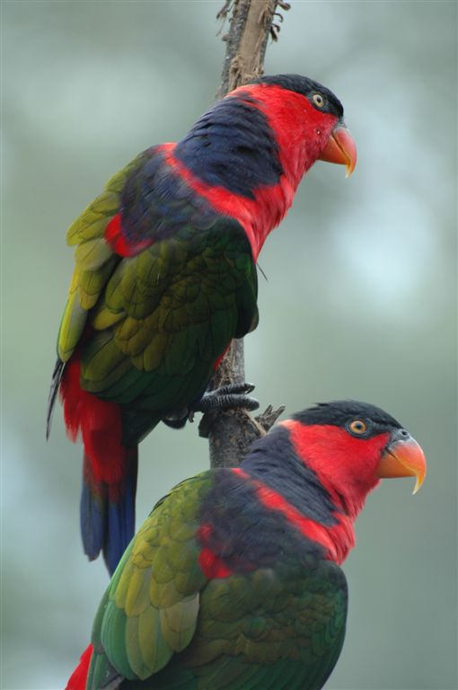 Black-capped Lory (Lorius lory) also known as Western Black Capped Lory or the Tricolored Lory. Two parrots on a branch at Singapore Zoo.